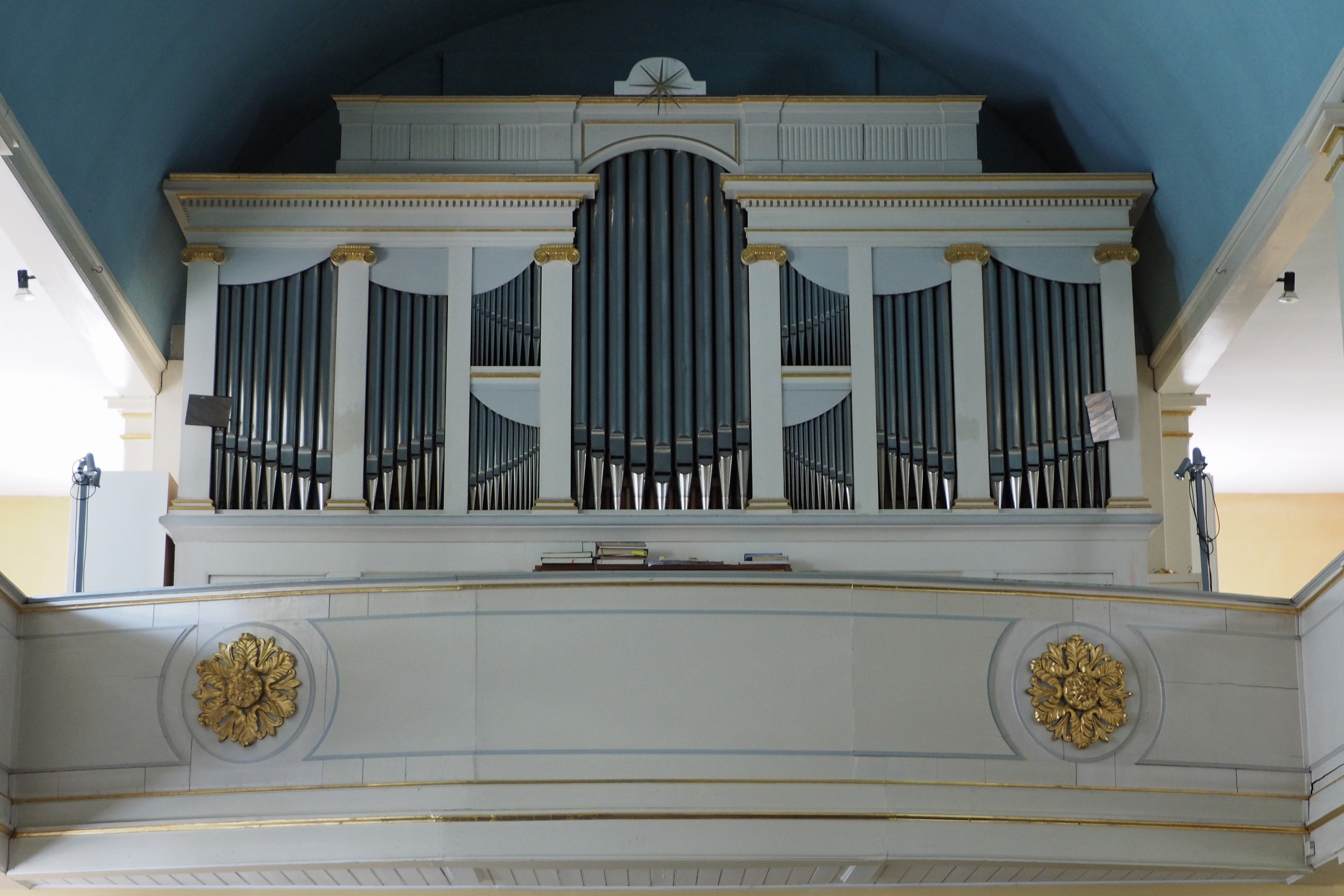 Pipe organ in the Church St John the Baptist, Winsen (Aller), Lower Saxony, Germany